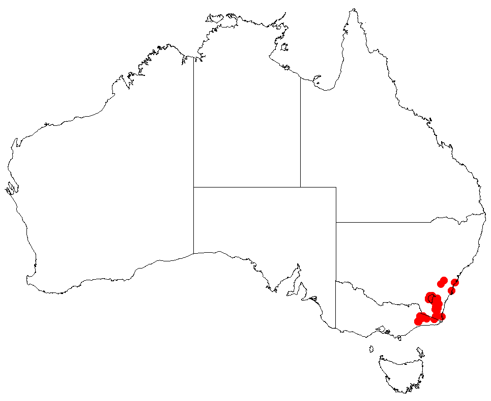 Acrotriche leucocarpa Occurrence data from Australasian Virtual Herbarium downloaded 23 November 2018 using